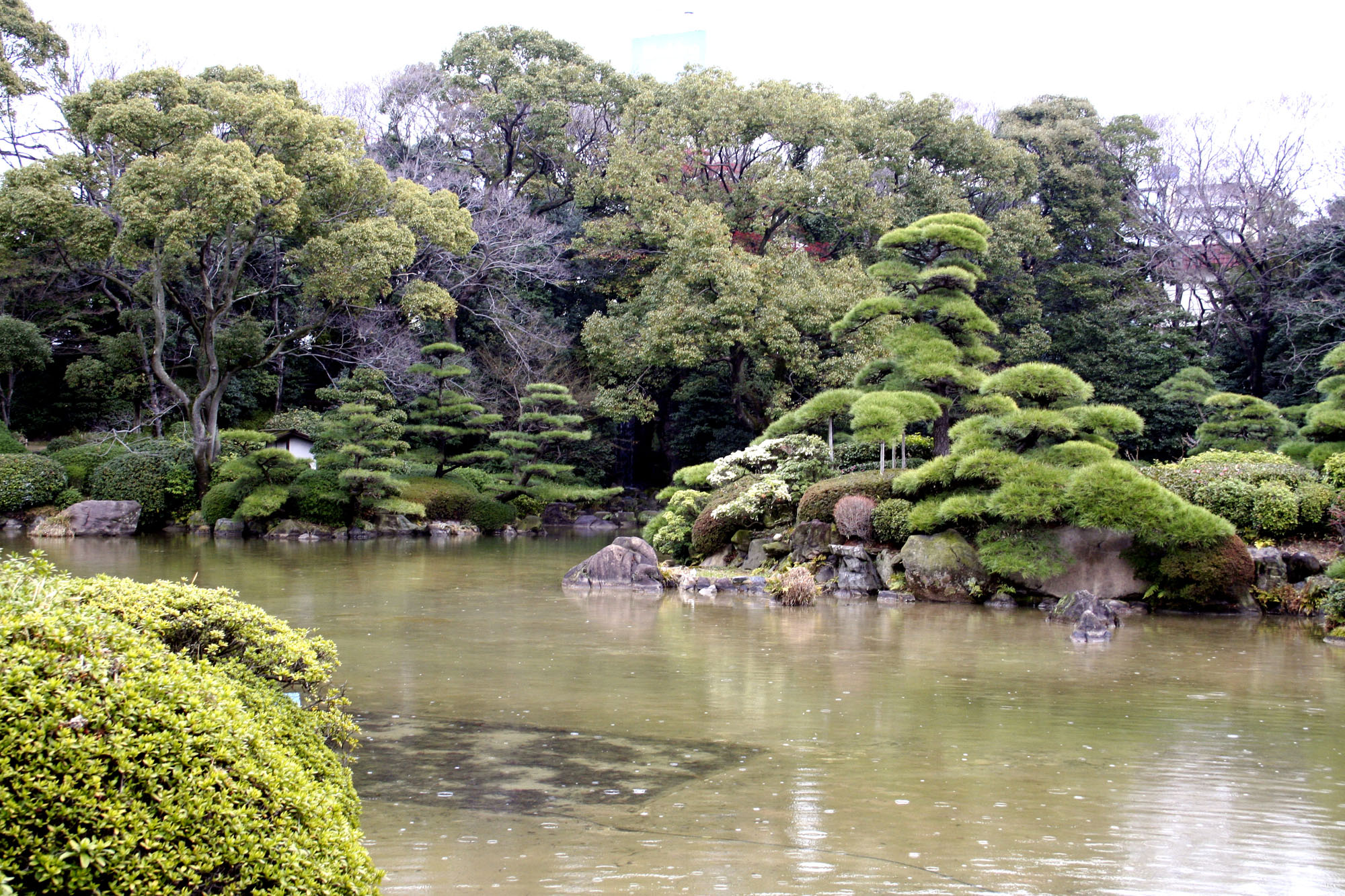 Taken at Tennoji Park in Tennoji.